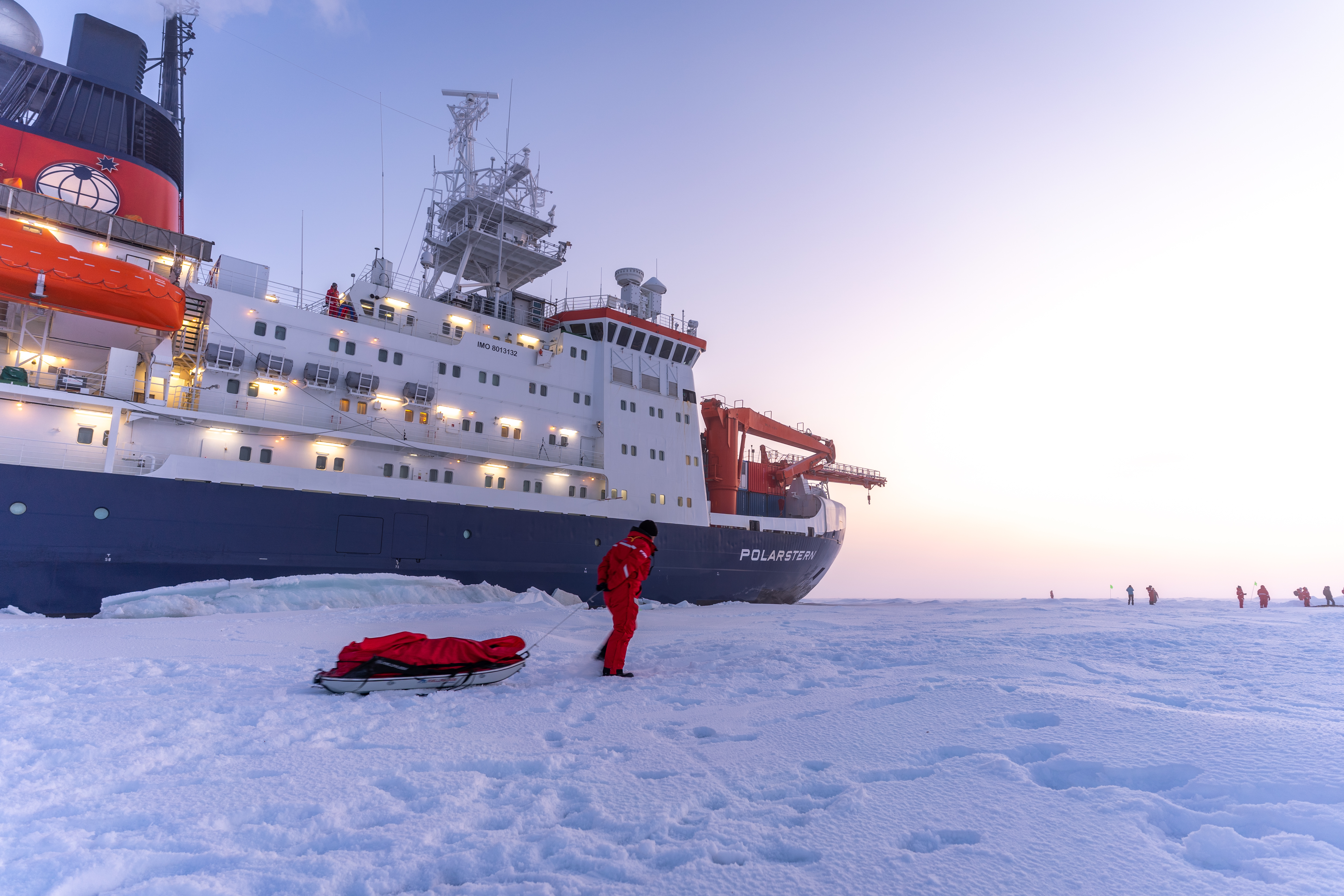 Scientist carrying equipment on ice in front of RV Polarstern during the MOSAiC expedition in September 2019.